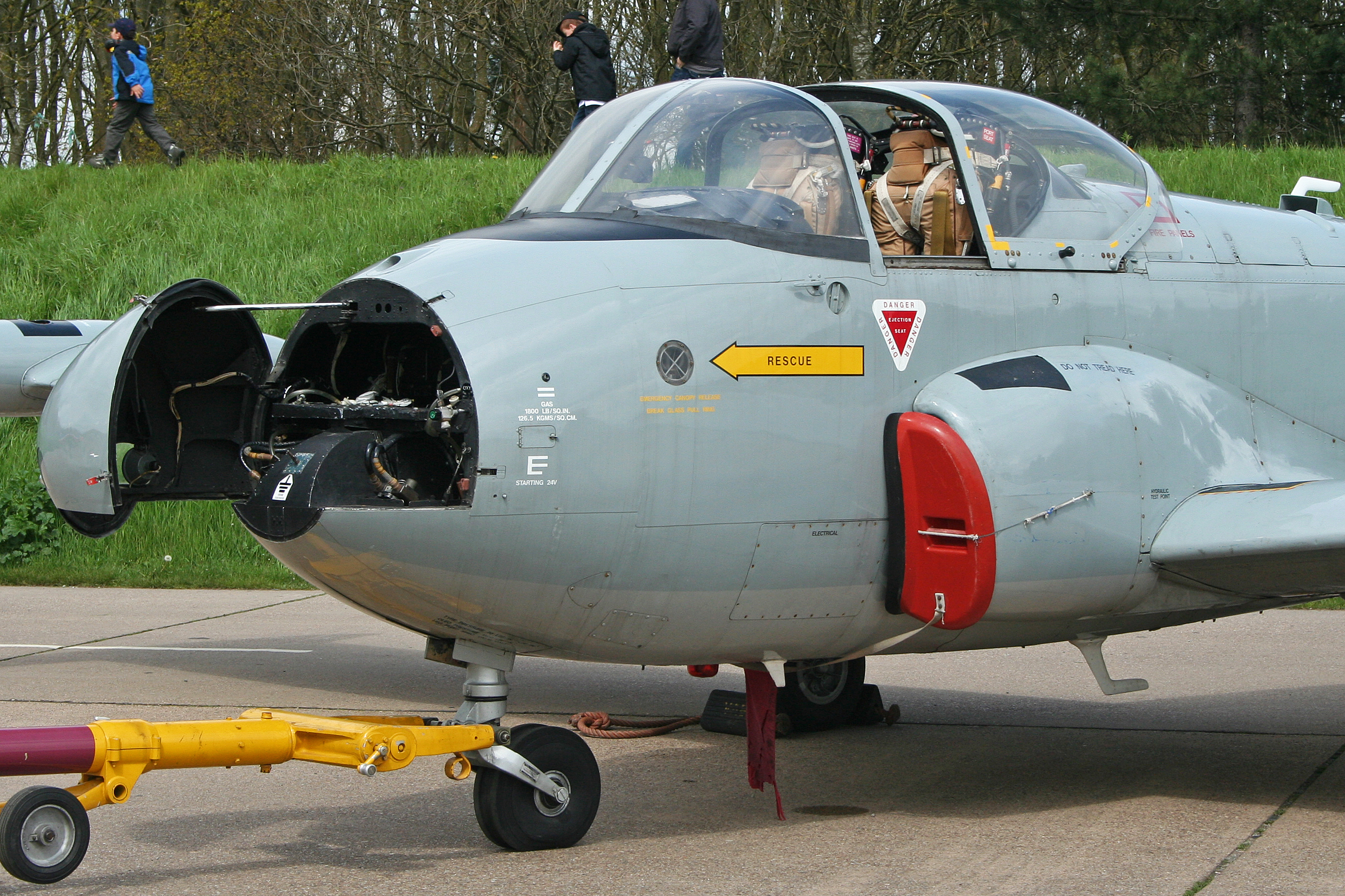 msn PAC/W/17641. Being readied for towing out for a fast taxi run. 2012 Cold War Jets Day. Bruntingthorpe. 06-5-2012